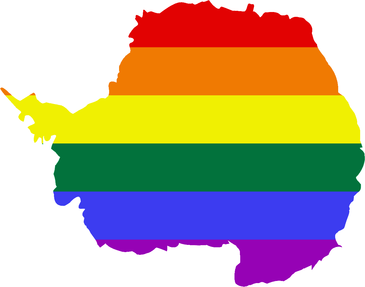 LGBT Flag map of Antarctica